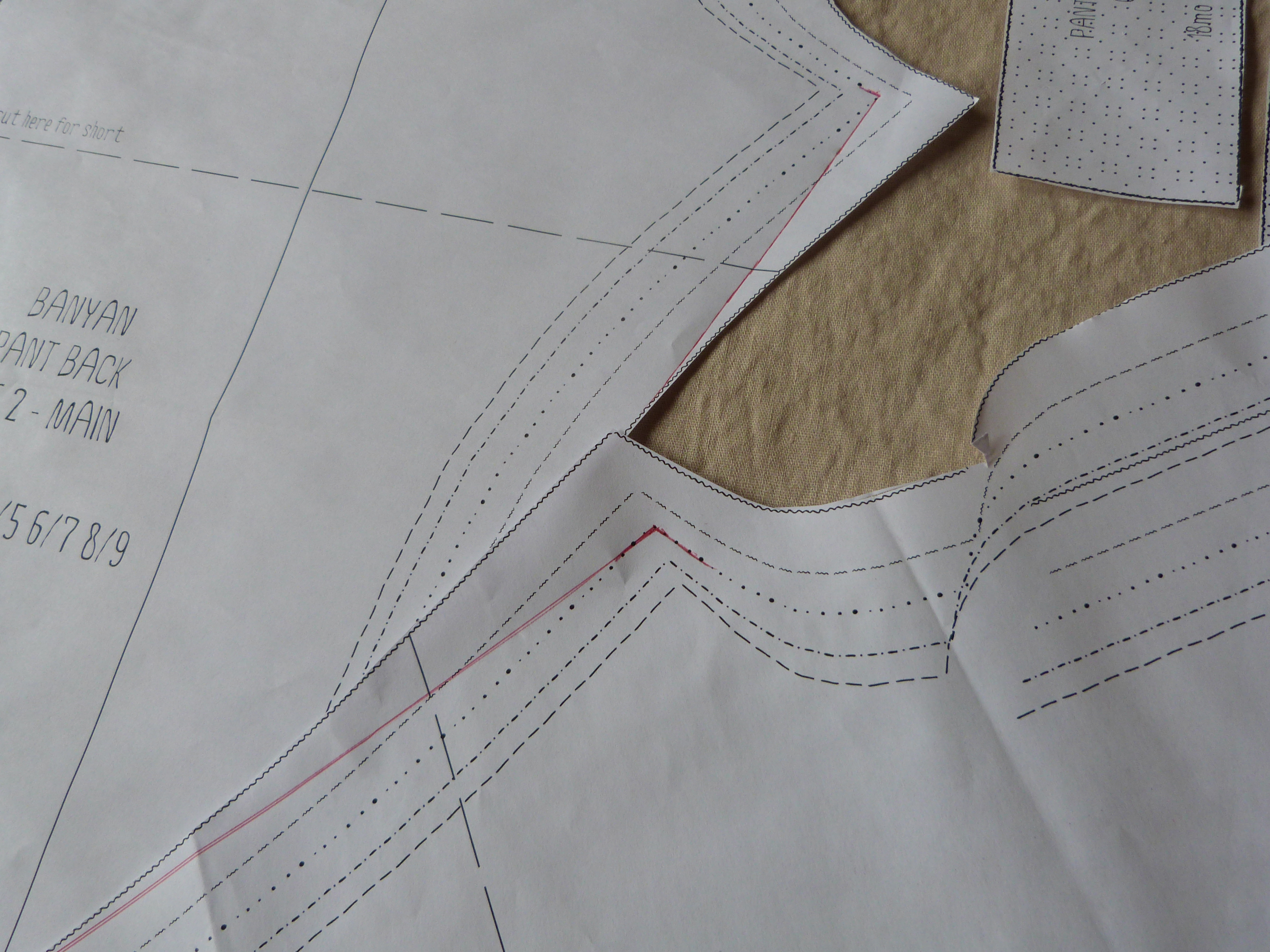 Grading a smaller waistband with sewing pattern pieces. Pieces come with markings for various waist sizes on them. Here, the sewer has tailored the pieces to match the measurements of the clothing-wearer, measurements she has marked on the pieces in red ink.